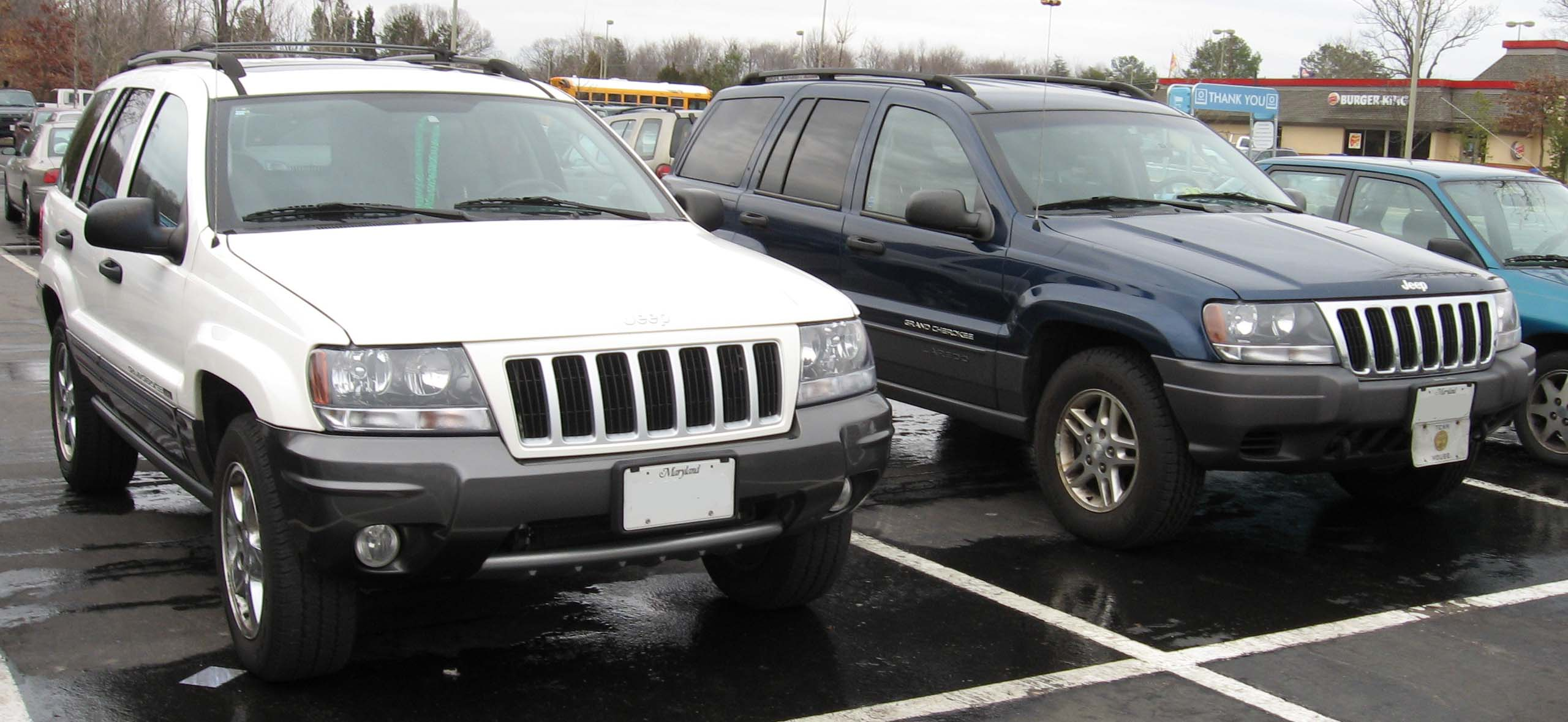 2004 (left) and 1999-2003 (right) Jeep Grand Cherokees photographed in USA.